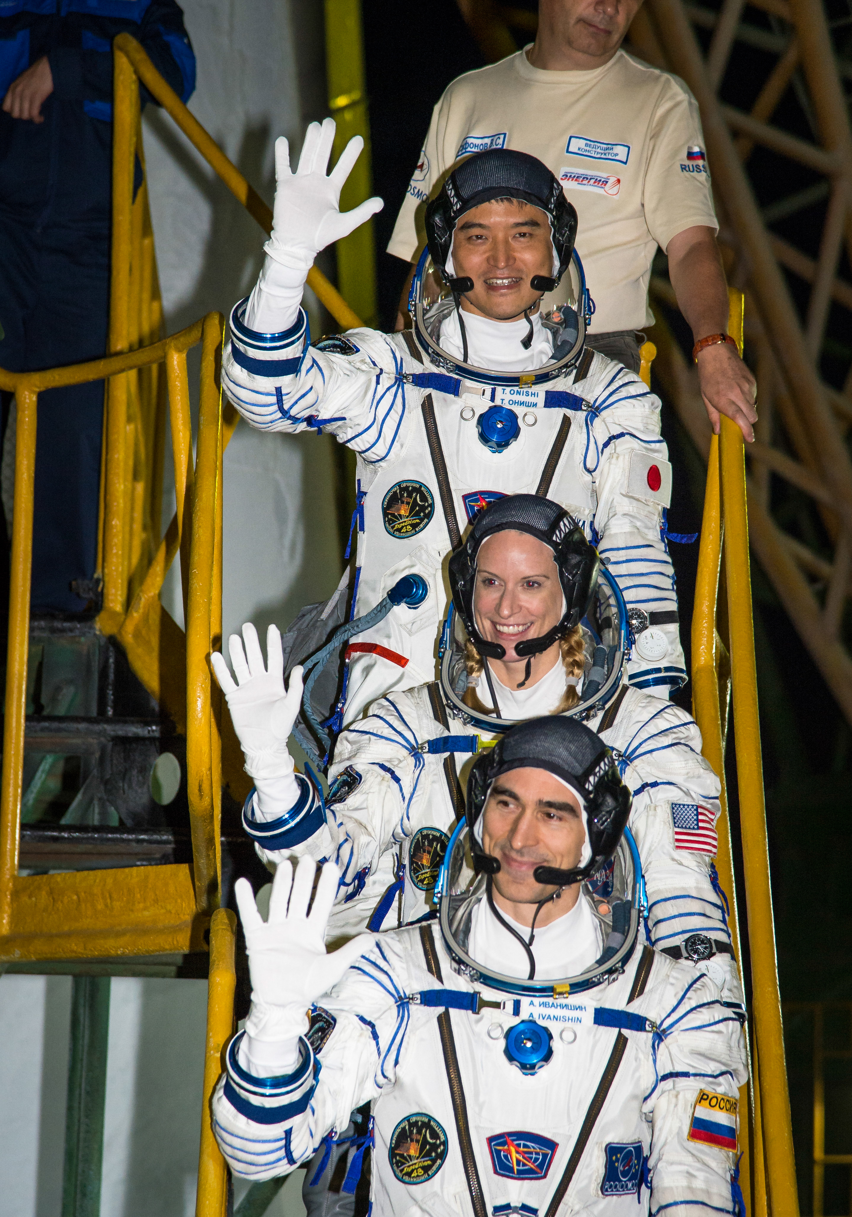 Expedition 48-49 crewmembers Japanese astronaut Takuya Onishi of the Japan Aerospace Exploration Agency (JAXA), top, Kate Rubins of NASA, middle, and Russian cosmonaut Anatoly Ivanishin of Roscosmos wave farewell before boarding their Soyuz MS-01 spacecraft for launch Thursday, July 7, 2016, Baikonur, Kazakhstan. The trio will launch from the Baikonur Cosmodrome in Kazakhstan the morning of July 7, Kazakh time (July 6 Eastern time.) All three will spend approximately four months on the orbital complex, returning to Earth in October.